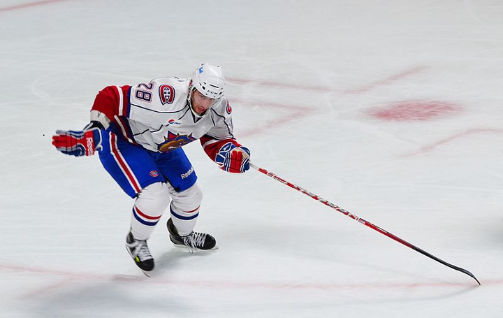 Hamilton Bulldogs' player, Aaron Palushaj, in a game against the Syracuse Crunch at the Bell Centre of Montreal.